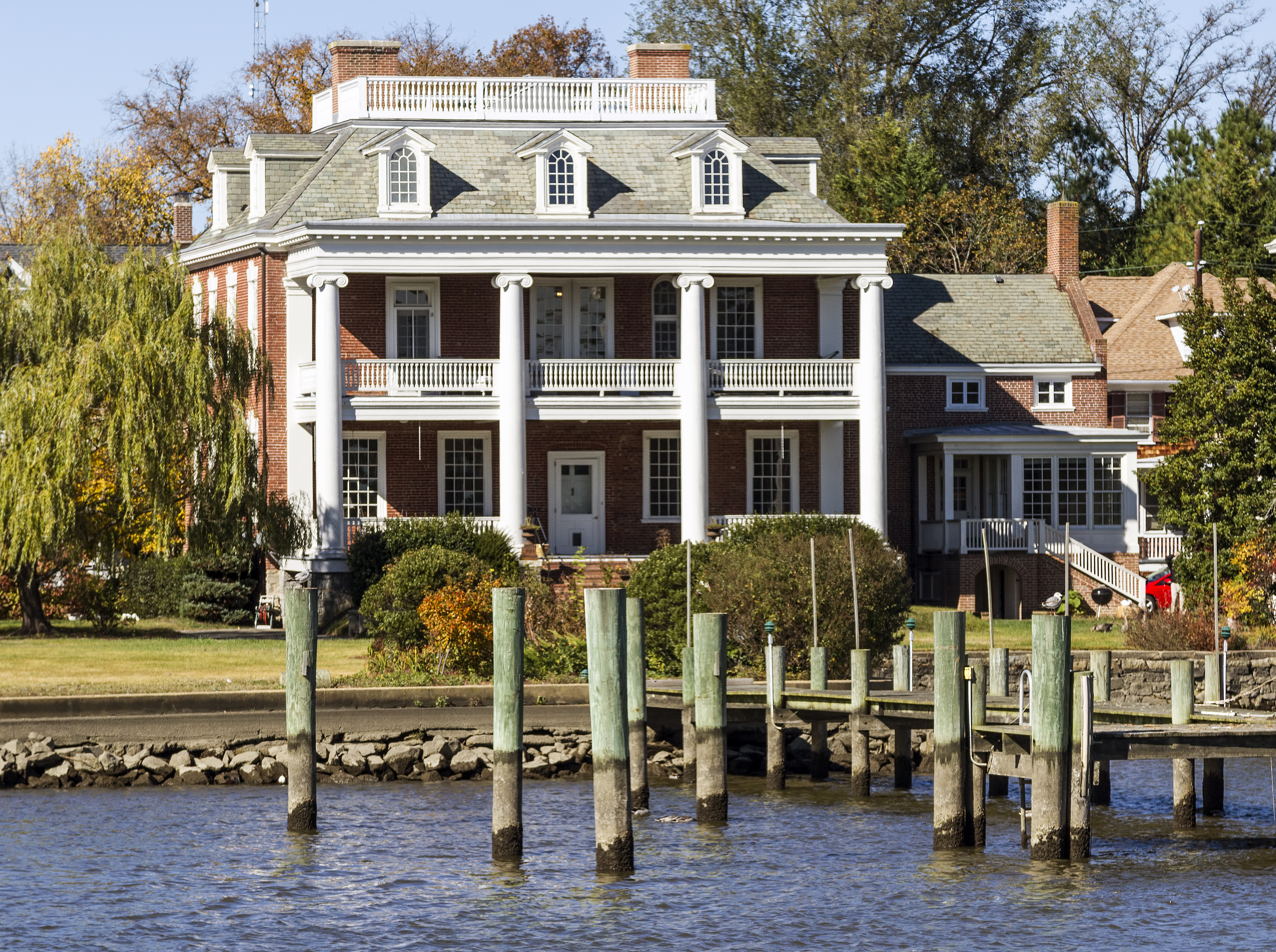 Widehall, Chestertown, Maryland, USA, from the Chester River